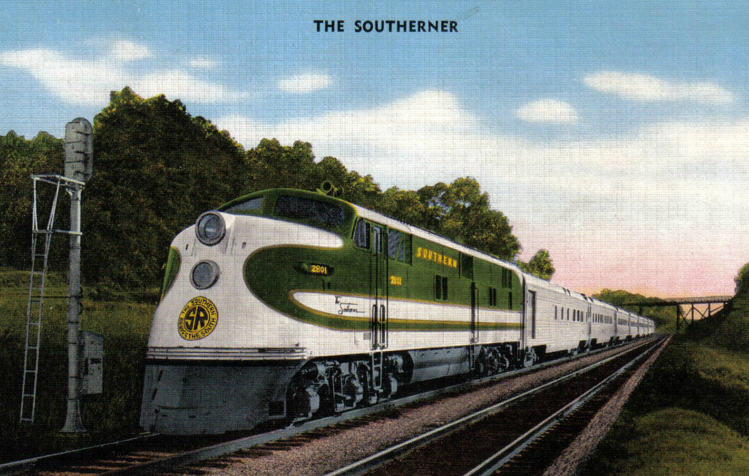 Postcard depiction of the Southern Railway System's streamliner, "The Southerner" which traveled between New York and New Orleans.